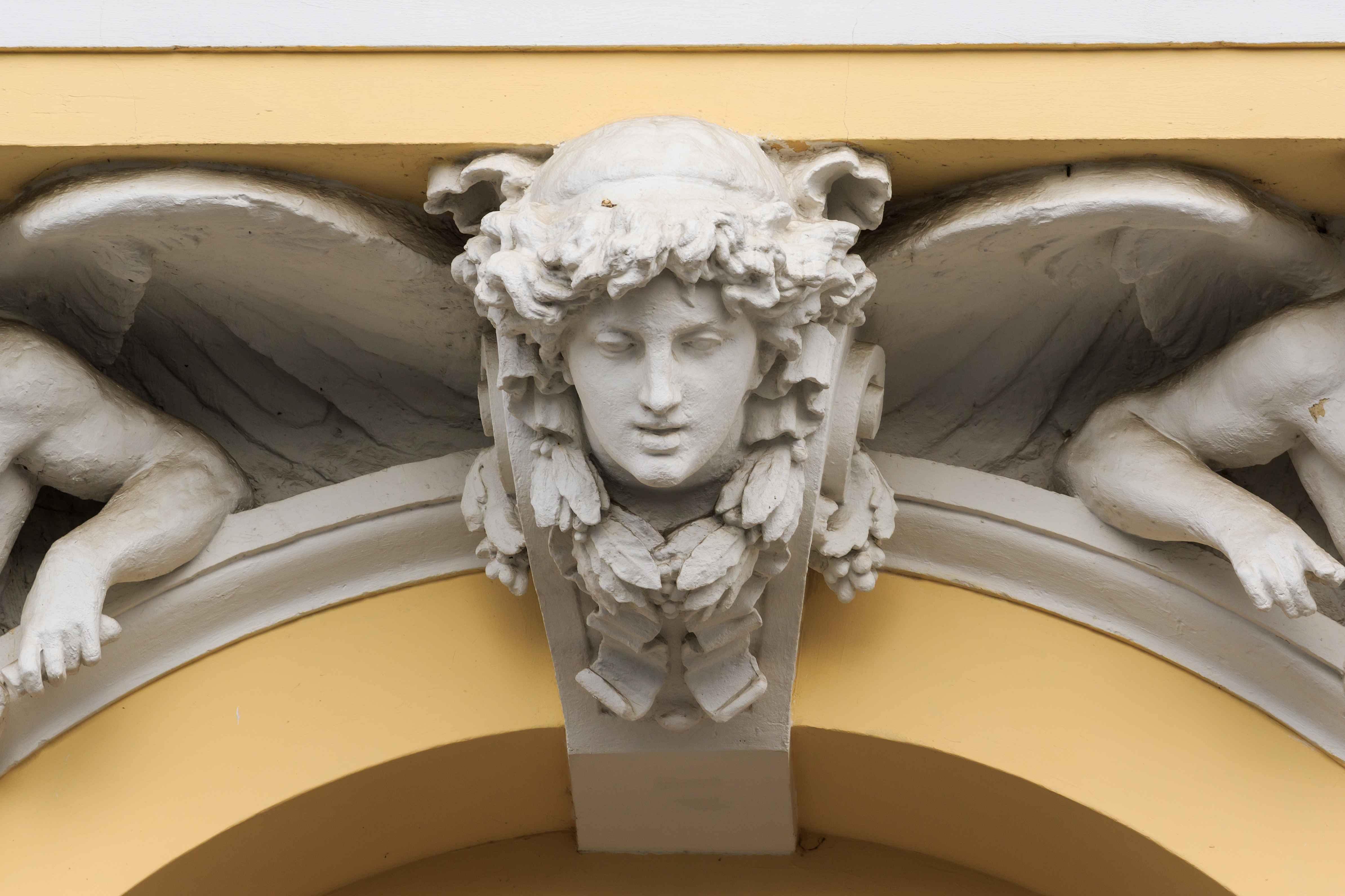 Building at 12, Neglinnaya Street (Central Bank of Russia, main office). Moscow, Russia.